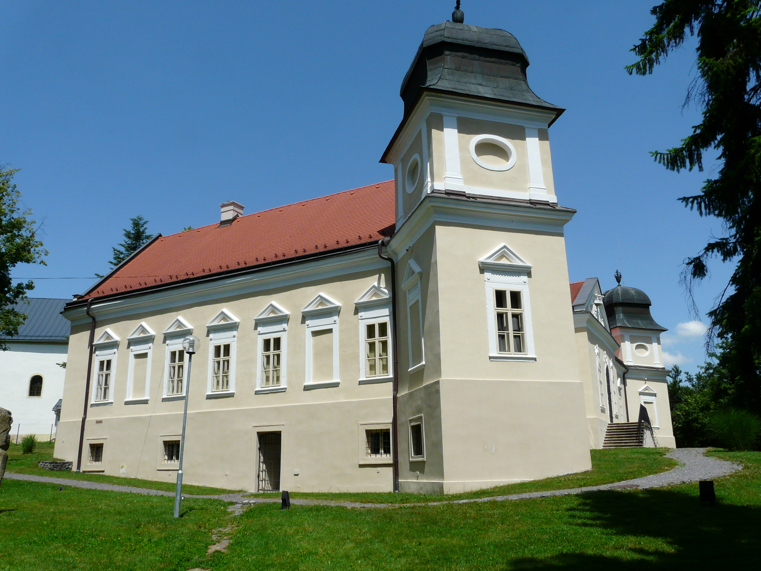 Imre Madách permanent exhibition in Madách Mansion, Dolná Strehová